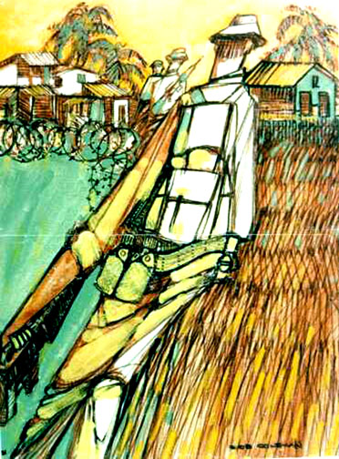 5th SPECIAL FORCES PATROL by Robert T. Coleman, CAT VI, 1968, Courtesy of the National Museum of the U.S. Army